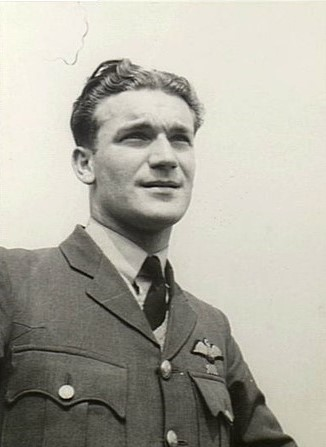 Lincolnshire, England. C. 1941-06. Portrait of Flight Lieutenant "Paddy" Finucane, Flight Commander of No. 452 (Spitfire) Squadron RAAF based at RAF Station Kirton-in-Lindsey.